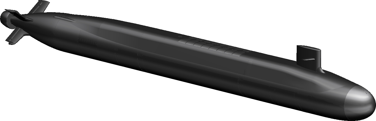 Columbia-class submarine, NAVSEA concept